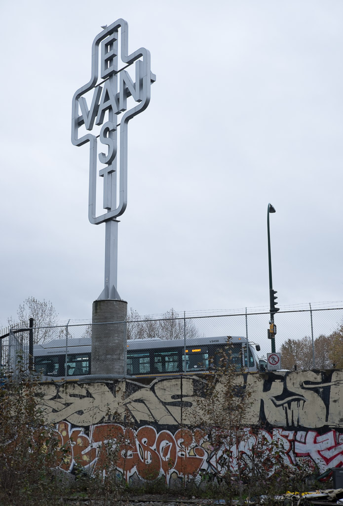 East Van Cross monument, formerly known as The Monument for East Vancouver, photographed in November 2014